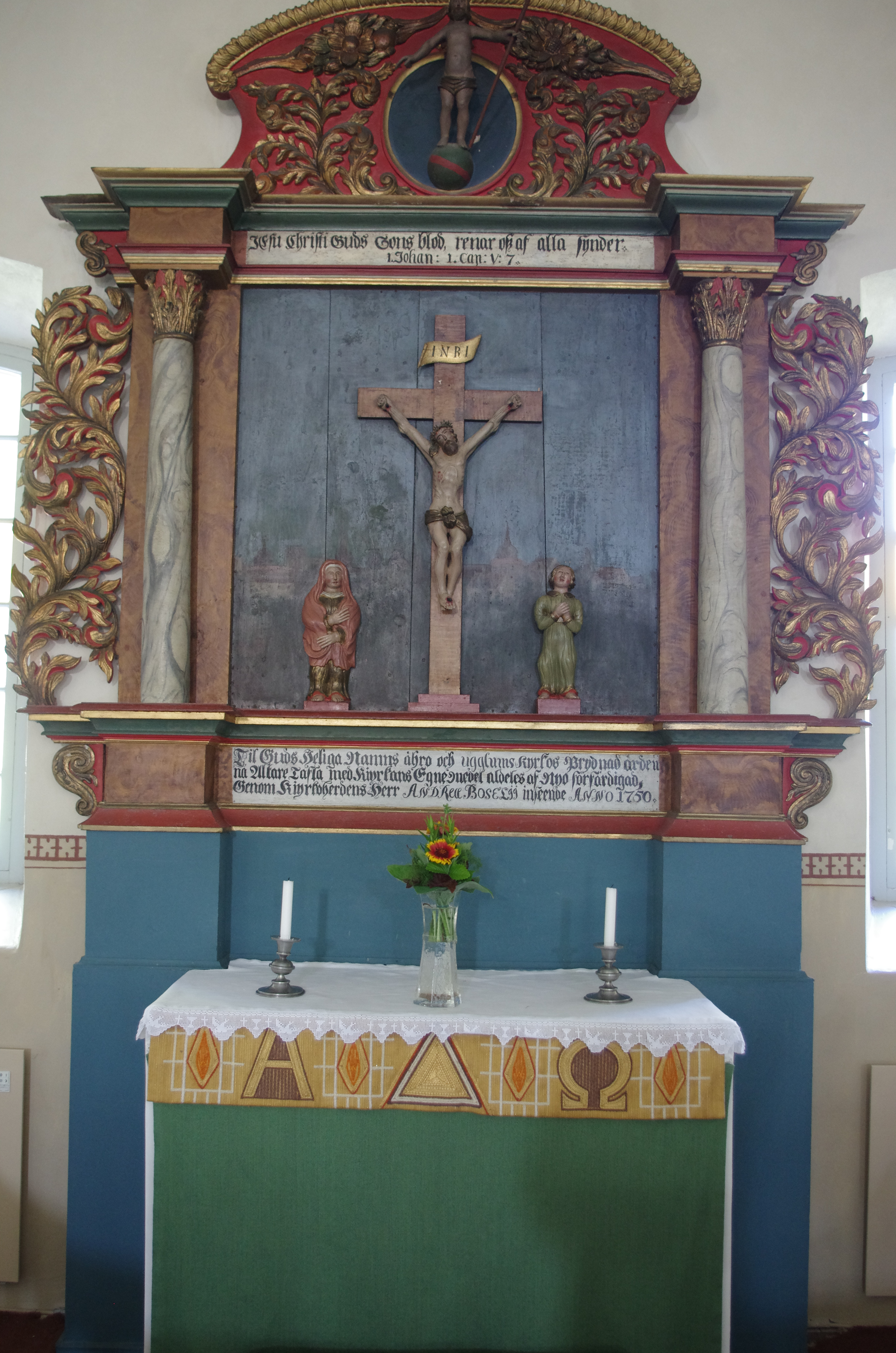 Ugglums kyrka (Swedish:Church of Ugglum) in Västergötland, Sweden. Built in 1820 and renovated 1914.